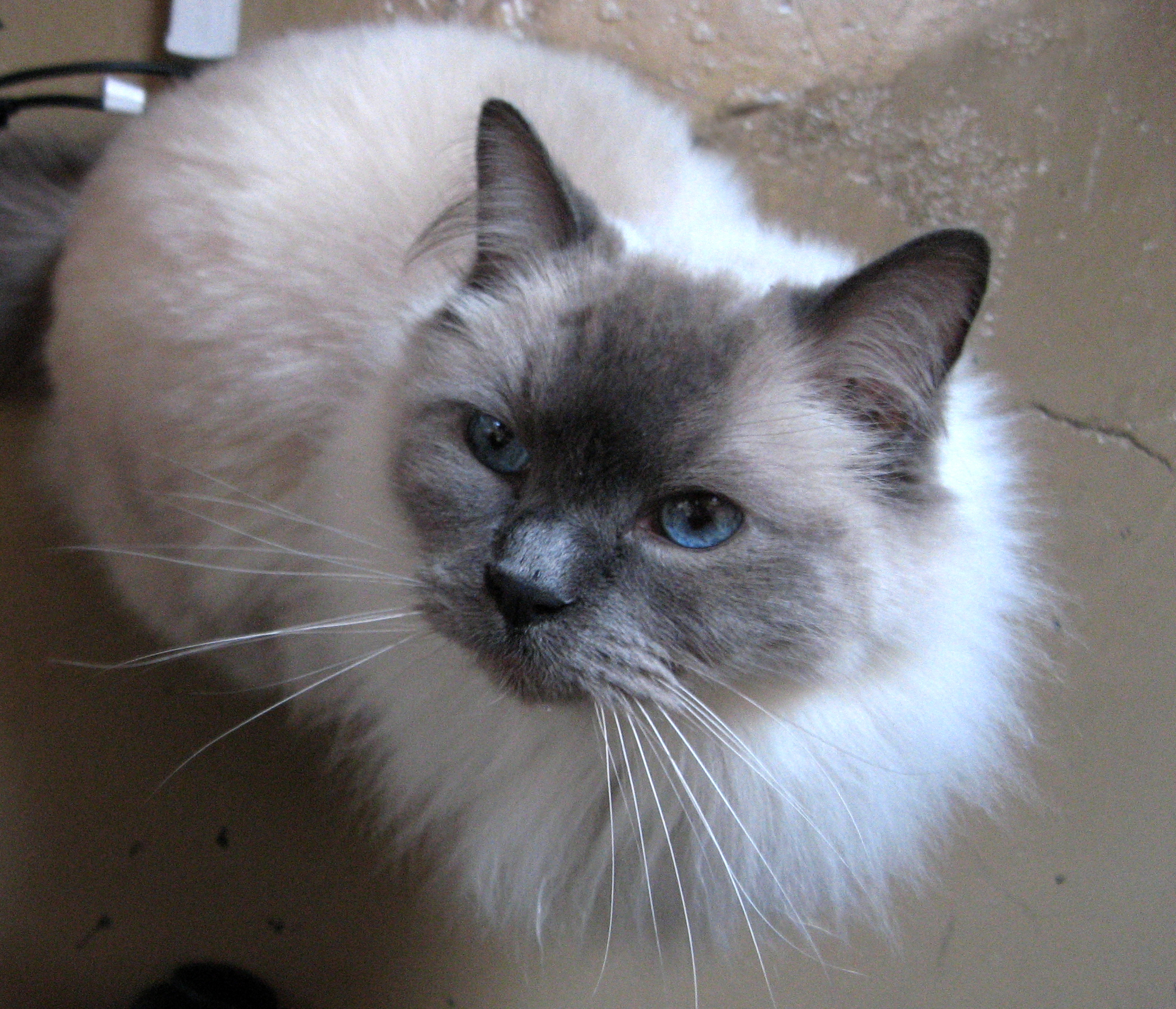 A blue color point male Ragdoll cat with blue eyes.